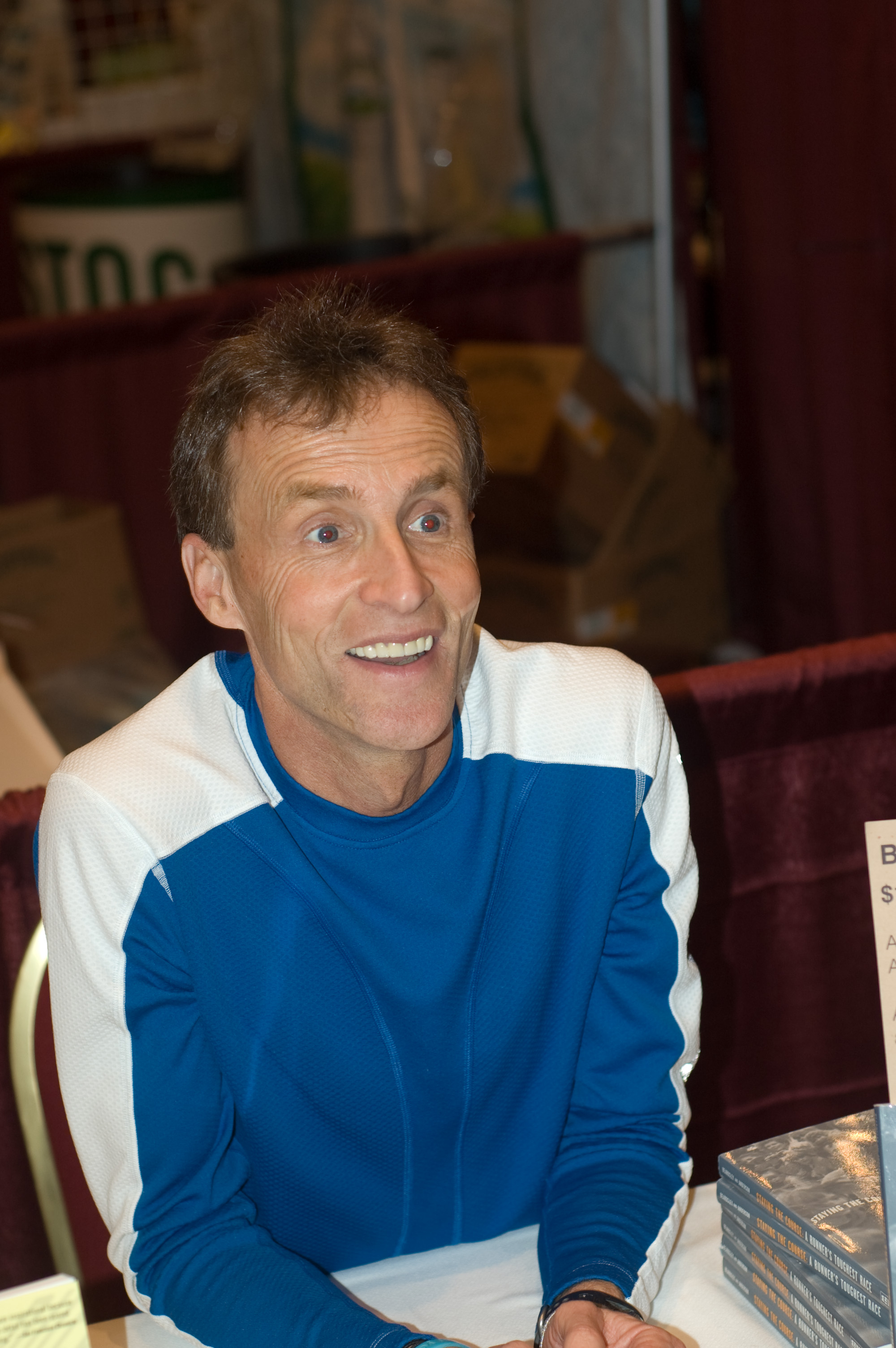 Dick Beardsley signing books at the Napa Valley Marathon race expo.